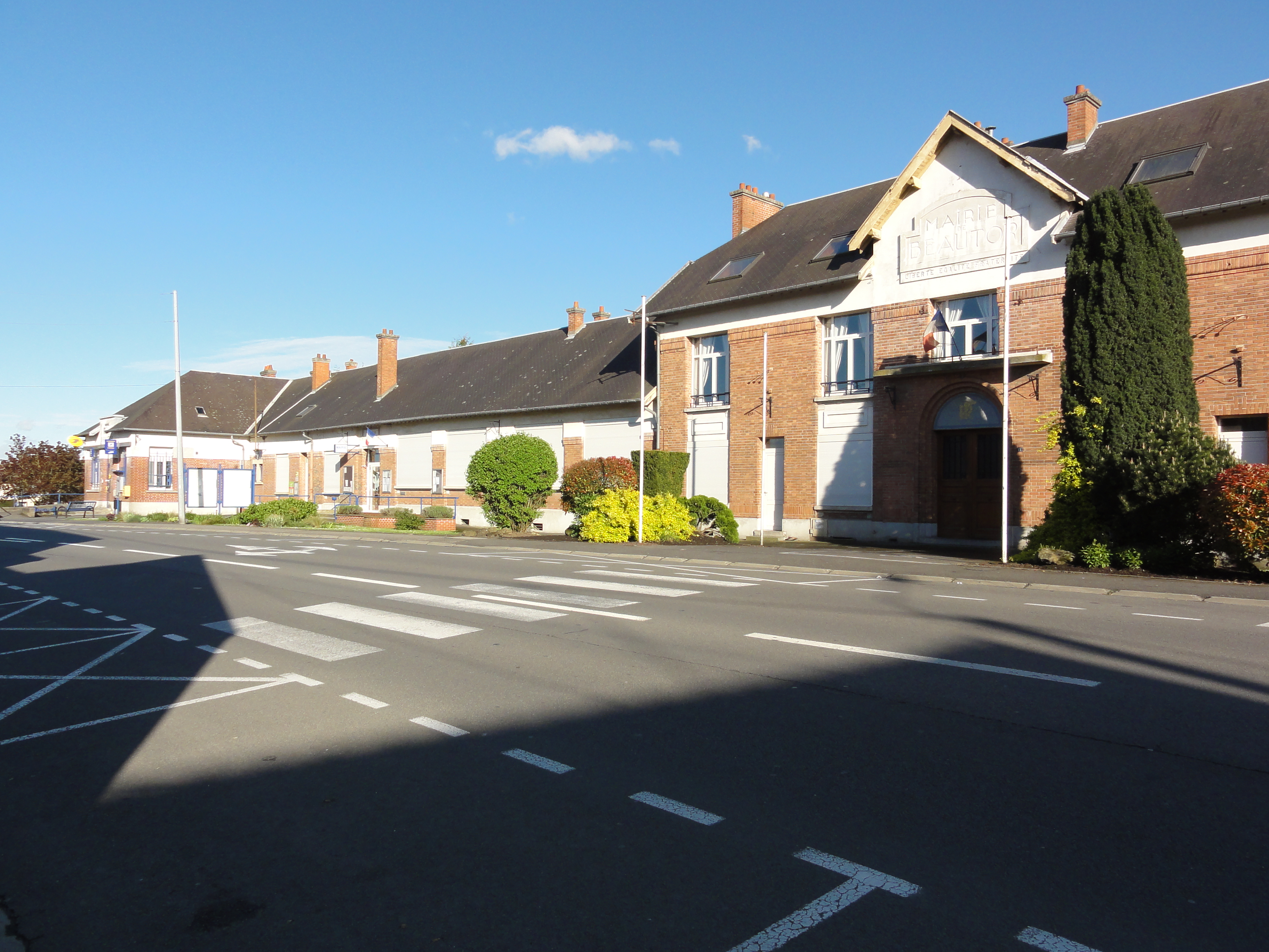 Beautor (Aisne) mairie - école - PTT